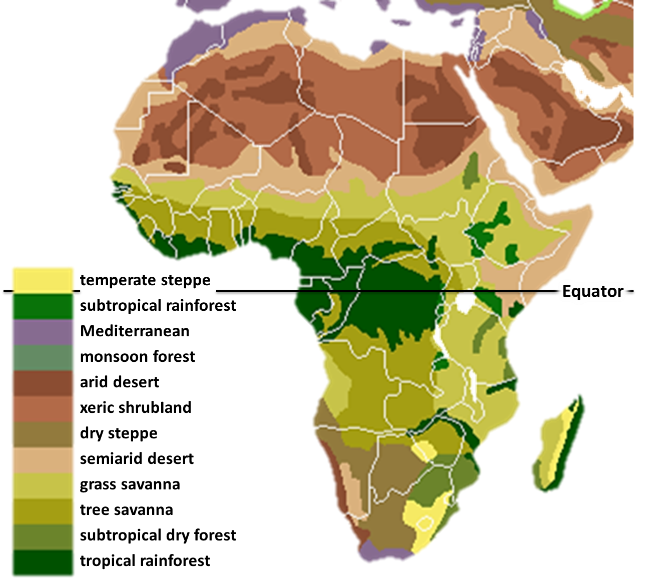 The main biomes in Africa. Drawn by hand using maps.